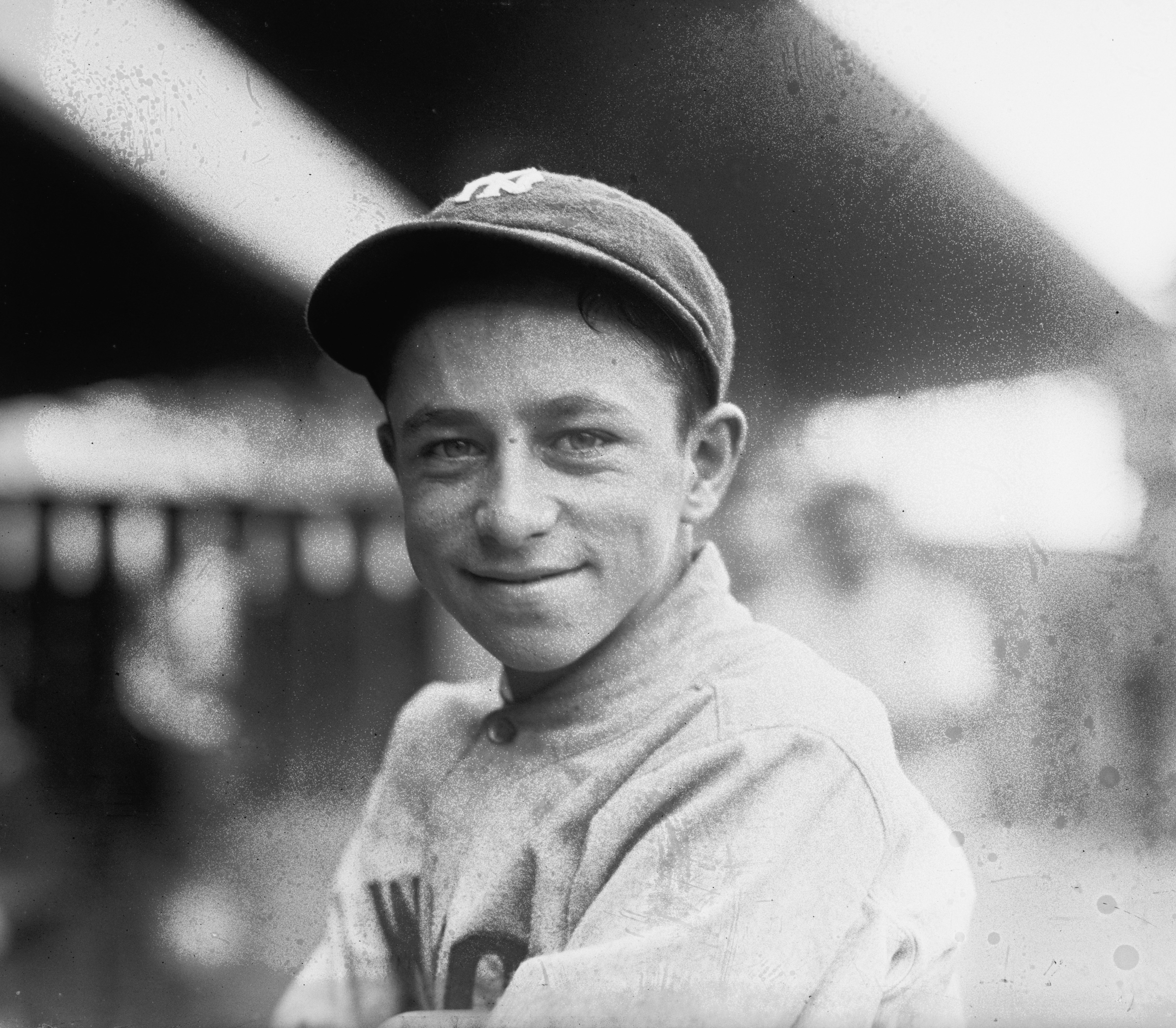 Title: Eddie Bennett, mascot, N.Y., 1921 Abstract/medium: National Photo Company Collection (Library of Congress) Physical description: 1 negative